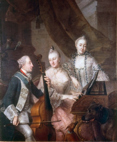 Maximilian III Joseph, Elector of Bavaria (1727-1777), his wife Maria Anna Sophia of Saxony (1728-1797) and his sister (Maria Josepha? (1739-1767), Maria Anna? (1734-1776) or Maria Antonia (1724-1780) ), or his mother Maria Amalia of Austria (1701-1756)